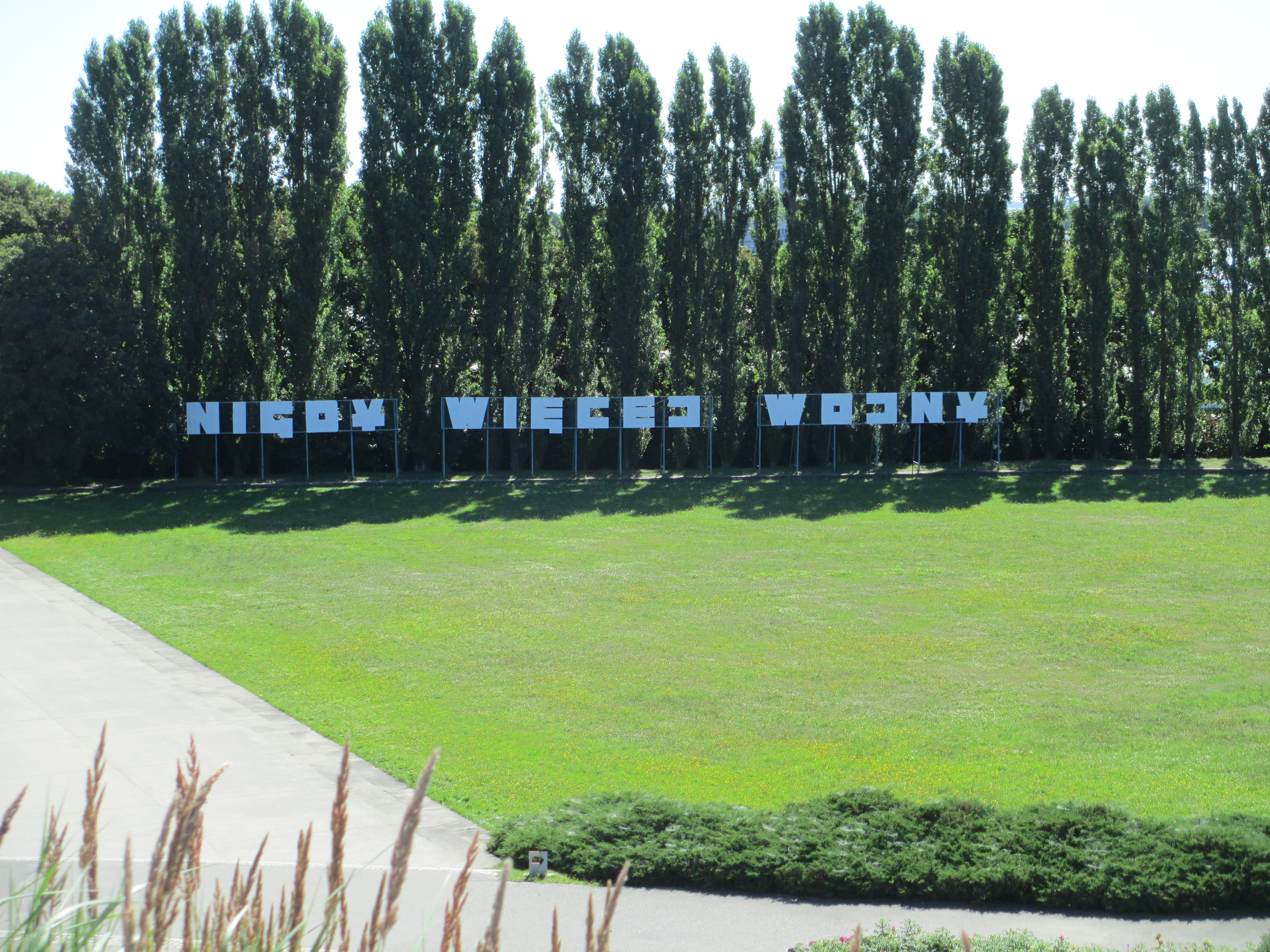 "never again war" in westerplatte